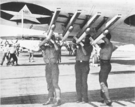 3.5-Inch Forward Firing Aircraft Rockets being loaded on a TBF Avenger aboard the escort carrier USS CORE.